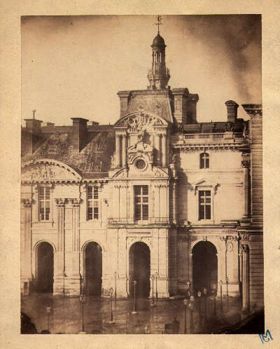 Pavillon de Rohan of the Louvre, seen from Place du Carrousel. Salt paper, 222 x 168 mm.